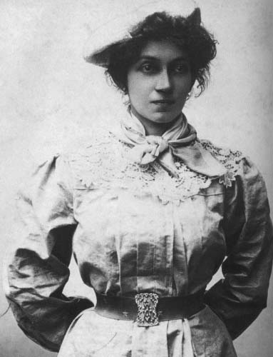 Argentine sculptress, Lola Mora.